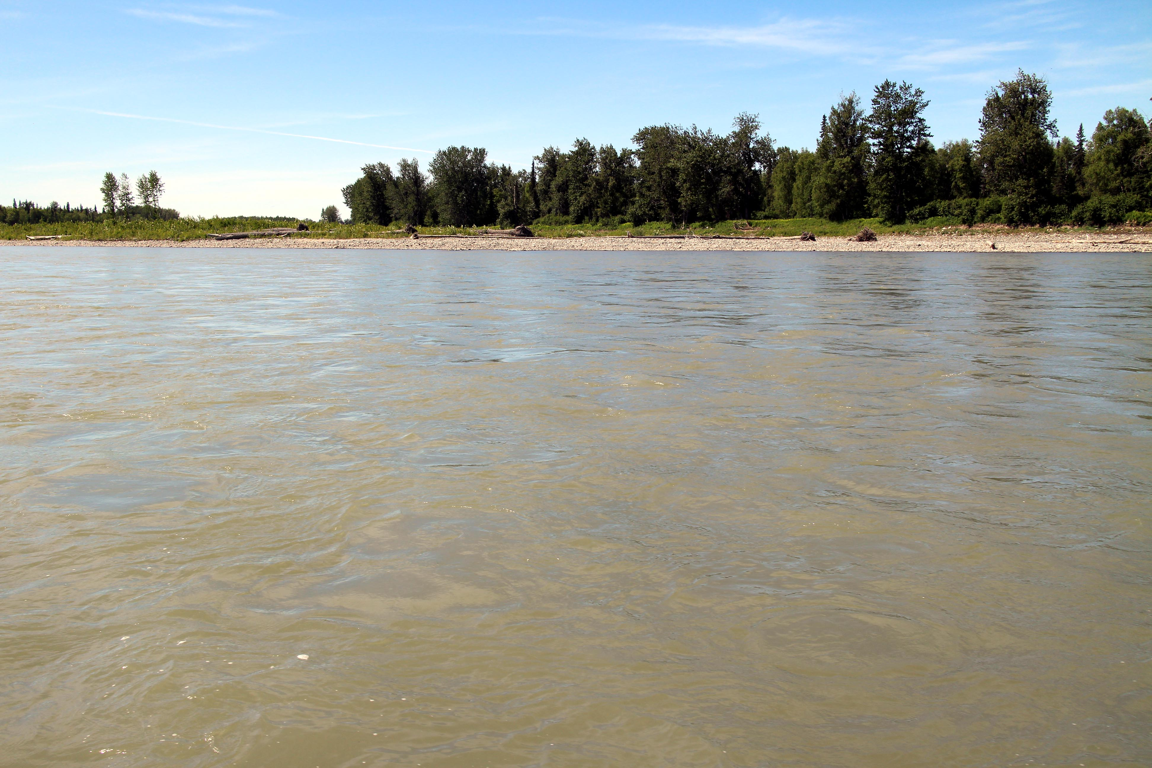 Susitna River on a clear sunny day in June 2015 near Talkeetna. The picture was taken from a boat.